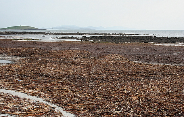 Rotting Seaweed This part of the beach is covered with deep drifts of seaweed, washed up by the tide and now rotting. The stench is quite revolting. In the distance are the hills on the Isle of Barra.